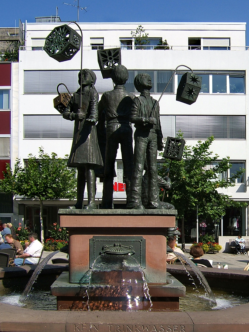 Fountain in Bad Homburg vor der Höhe, Germany